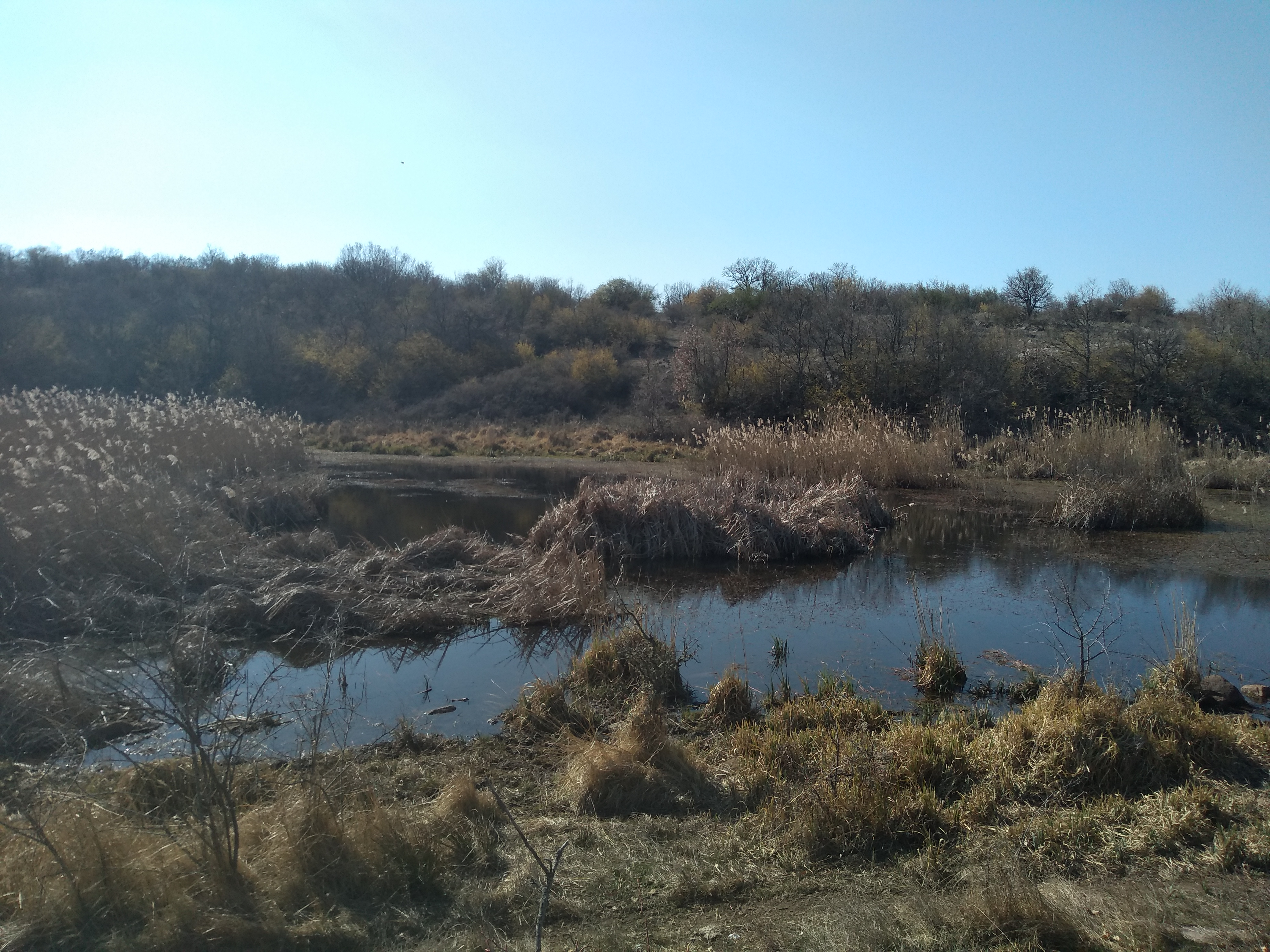 Mokro Ezero, Wet Lake of volcanic origin, in Kumanovo region, Macedonia